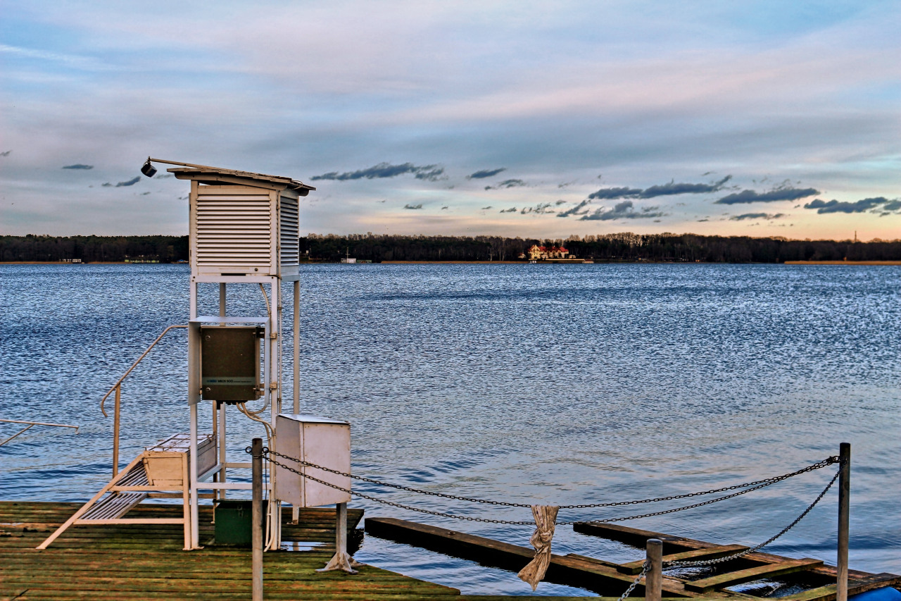 Weather station in Radzyń